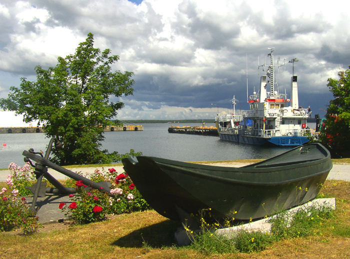 Slite harbour on Gotland.